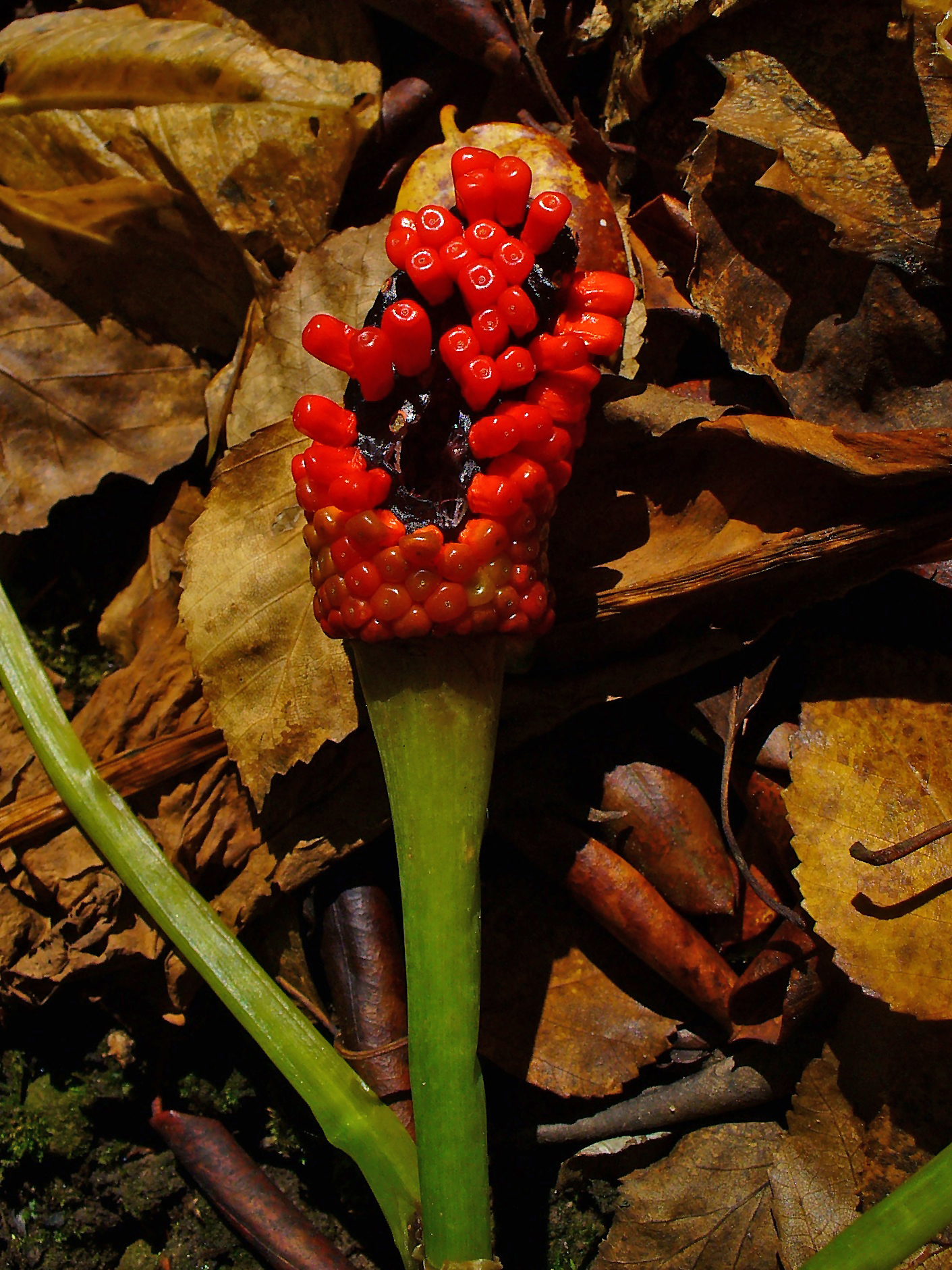 Engler’s Coral Lily, fruits; Botanic Garden Universiy Tübingen, Germany.